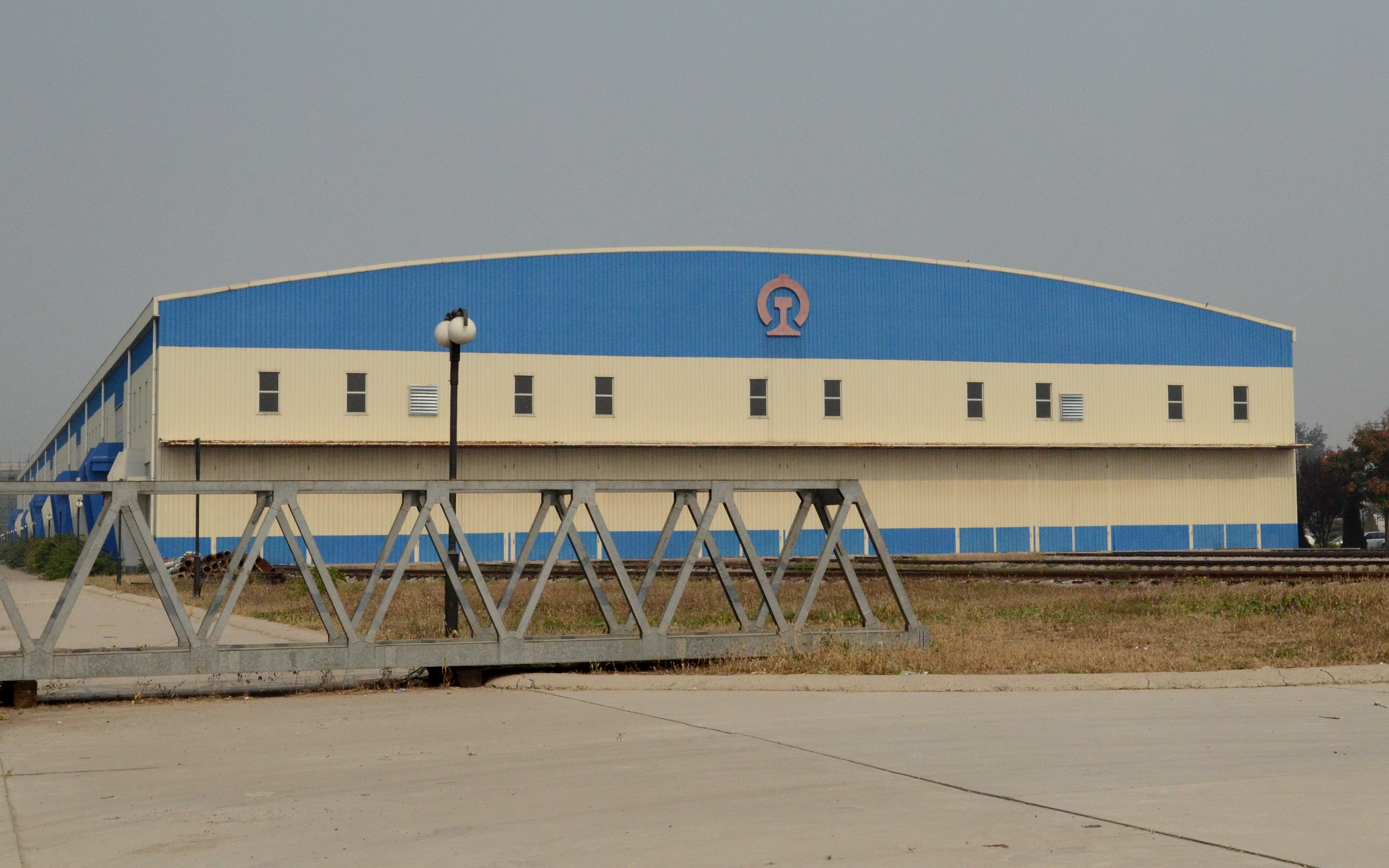 An exhibition hall used to display locomotives in the China Railway Museum, Chaoyang District, Beijing, China.